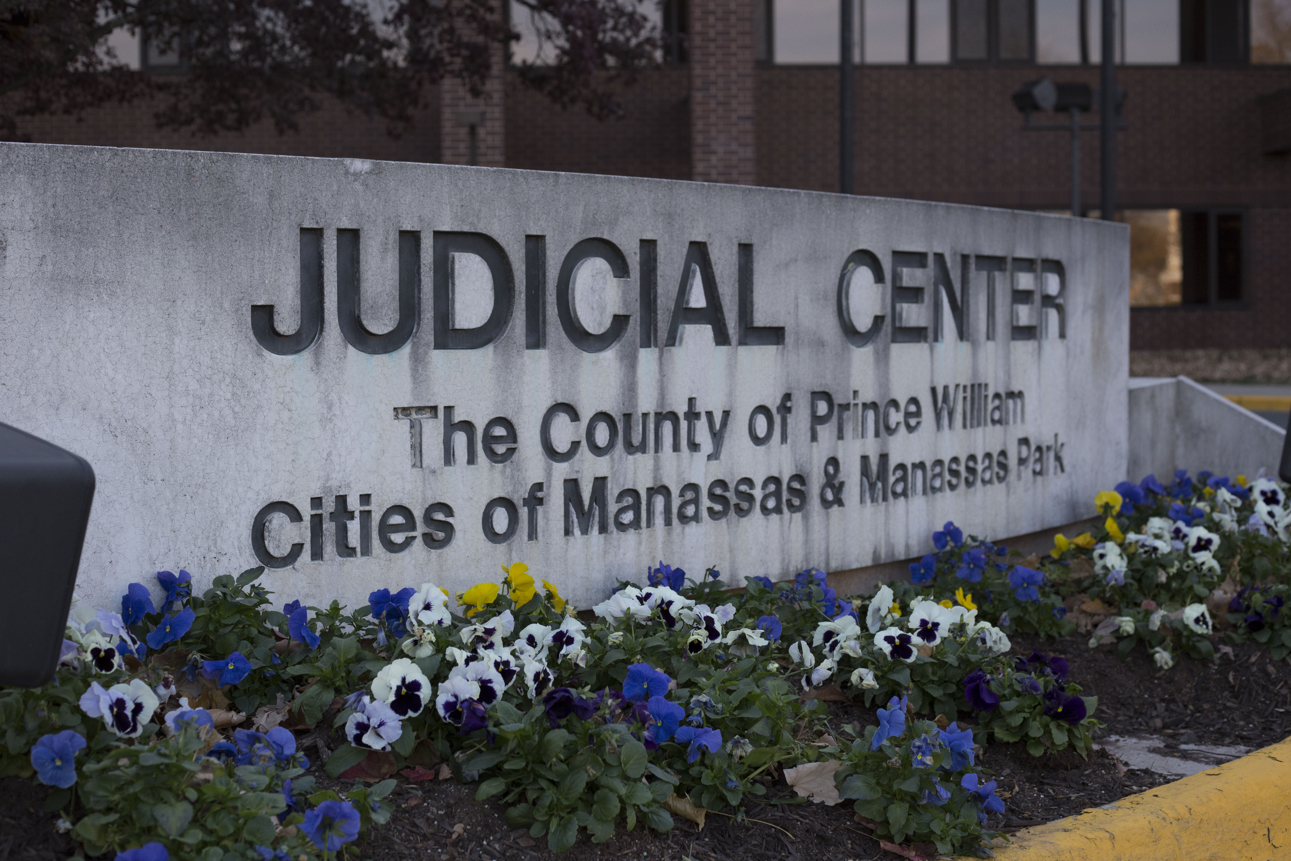 Prince William General District Court. The 31st Judicial District of Virginia.